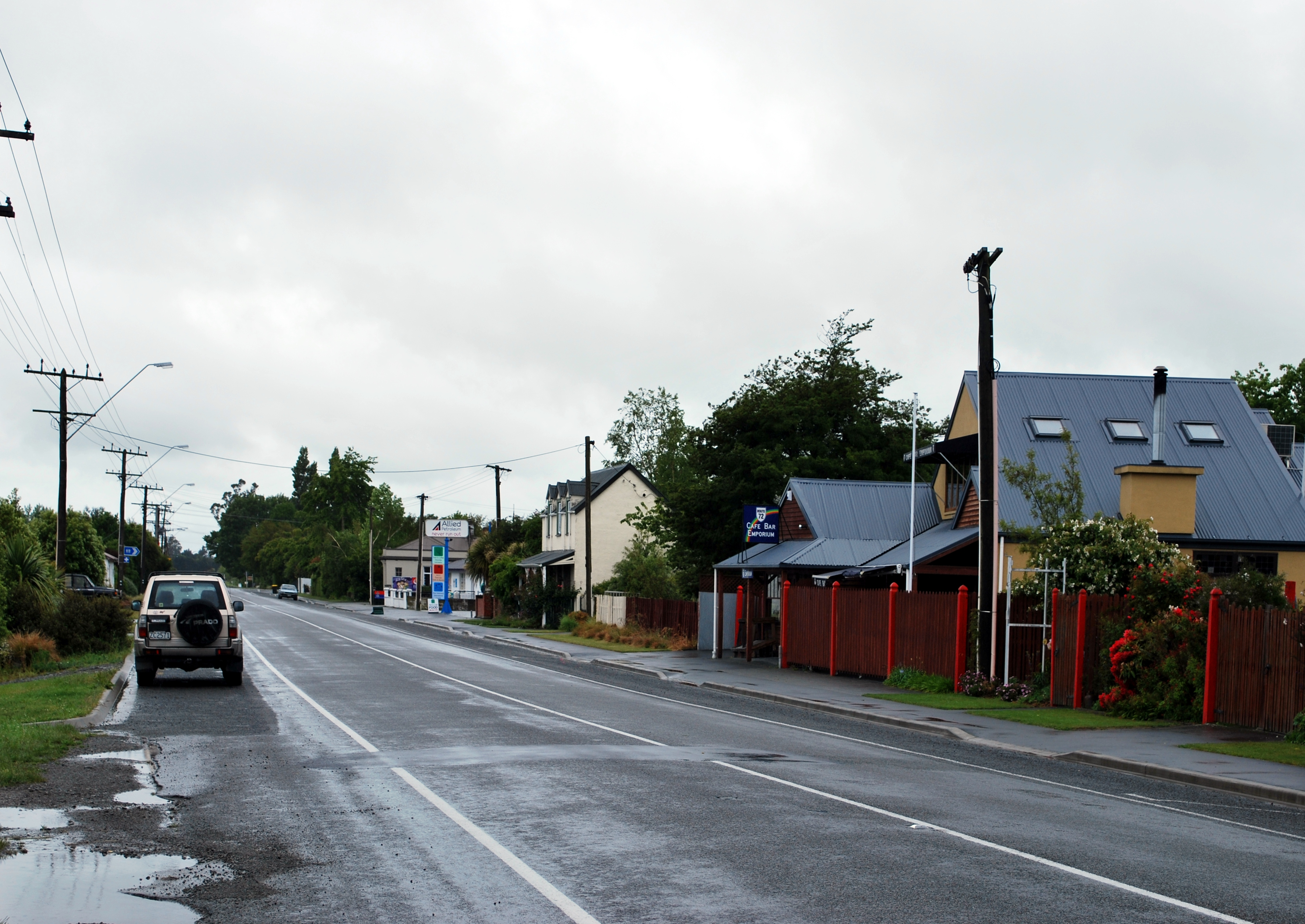 Main street of Cust, New Zealand